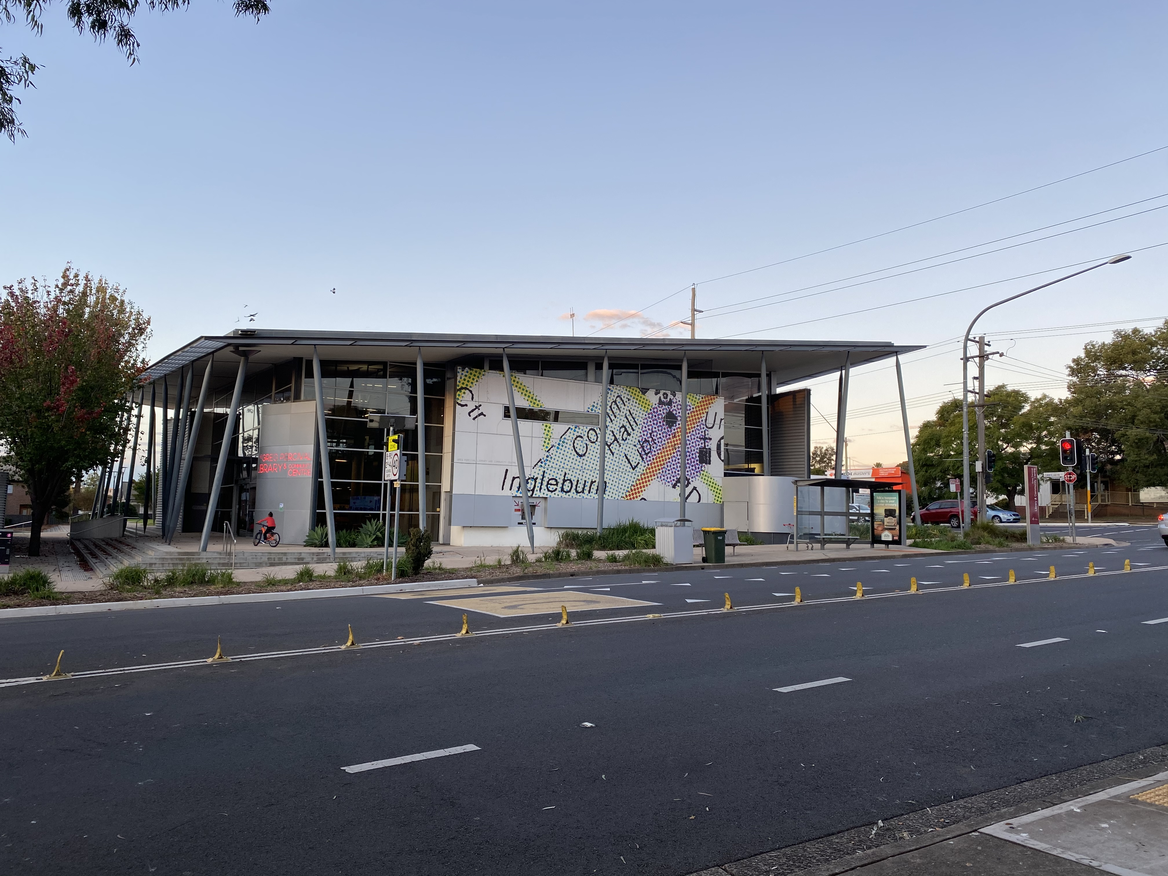 Side view of the Greg Percival Community Centre from across the road